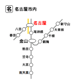 stations of Nagoya city